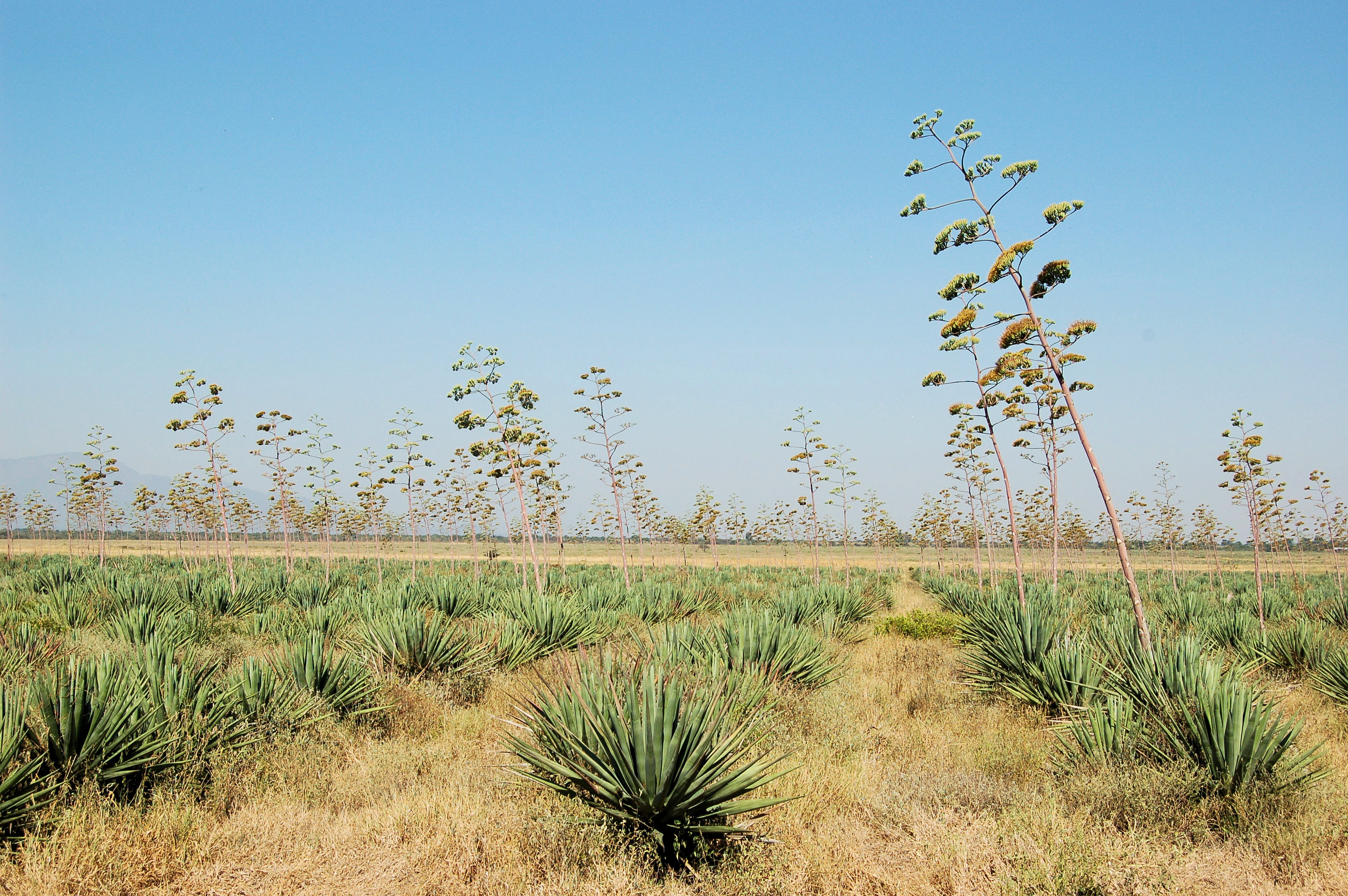 Sisal fields in Northern Tanzania